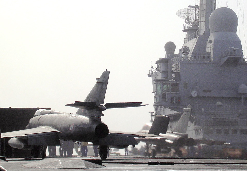 Nuclear aircraft carrier Charles de Gaulle (R 91)